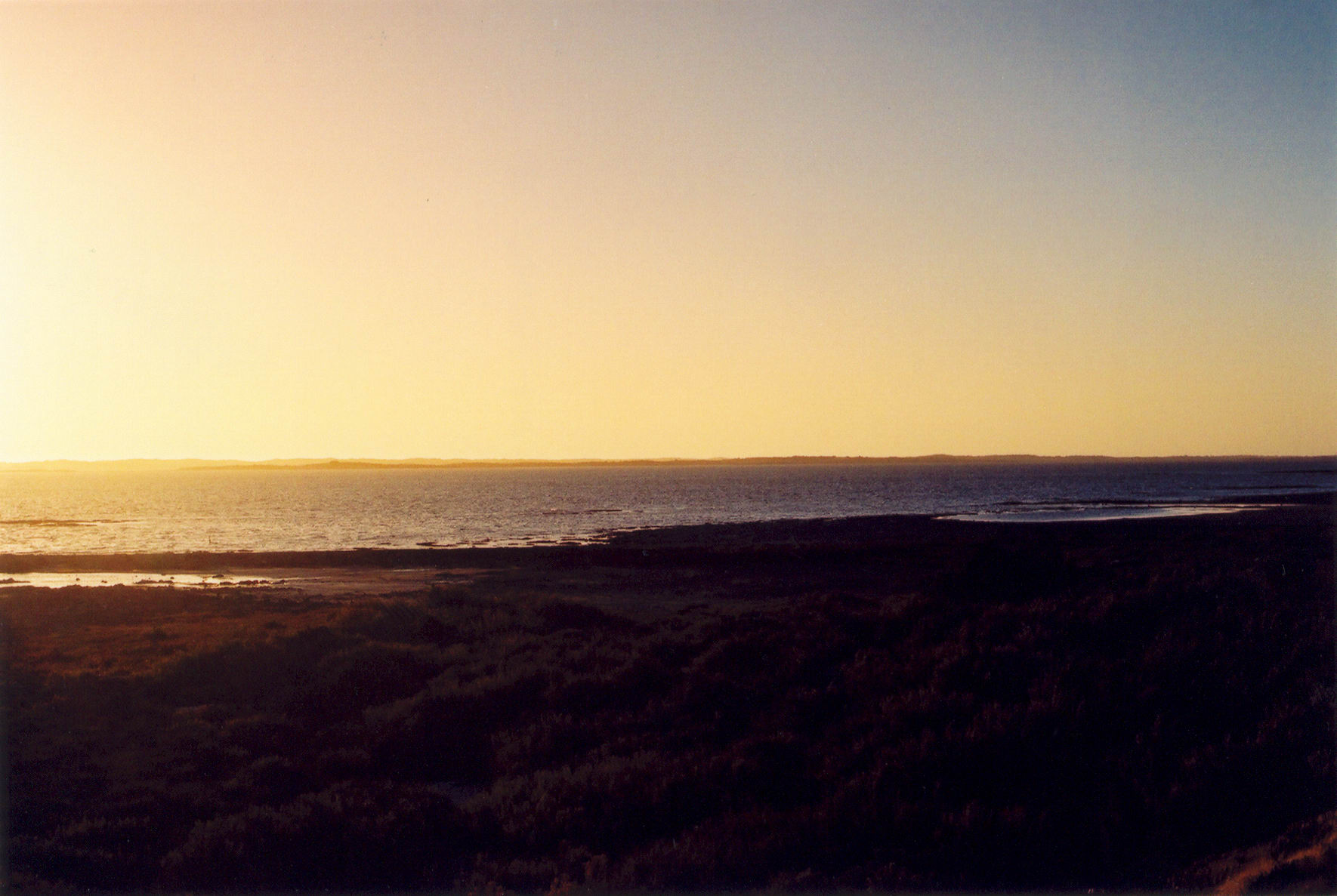 Rayleigh scattering causing the blue hue of the sky while Mie scattering is responsible for the reddening in the sunset The Coorong, South Australia. Scanned photo taken by Stephen West in March 2004.